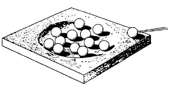 Niels Bohr Compound Nucleus